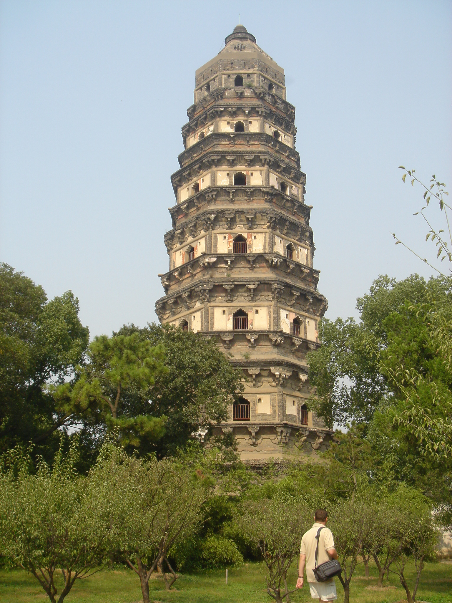 Image of the Yanyansi pagoda